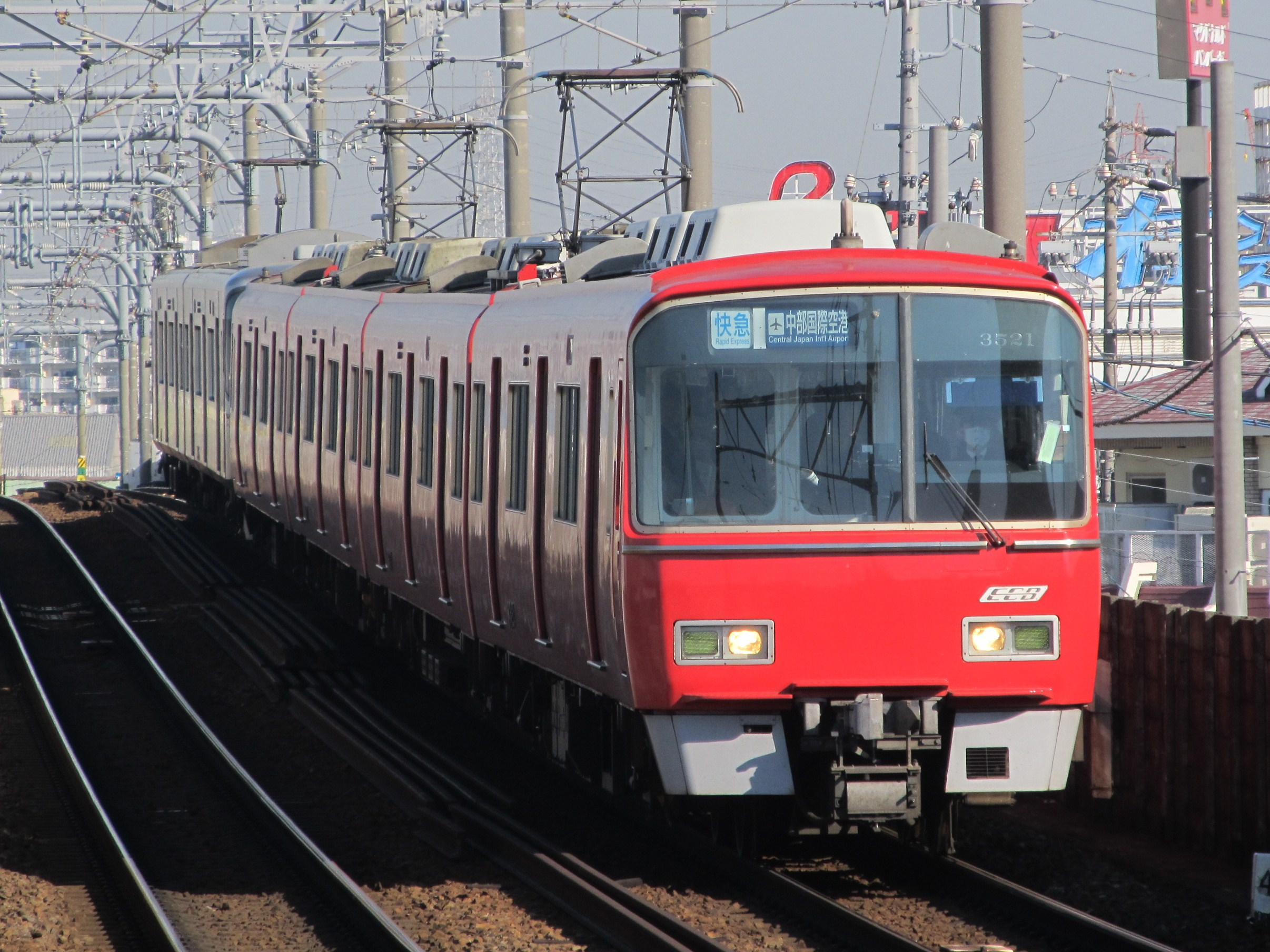 Meitetsu 3500 series. Rapid Express bound for Central Japan Int'l Airpt.